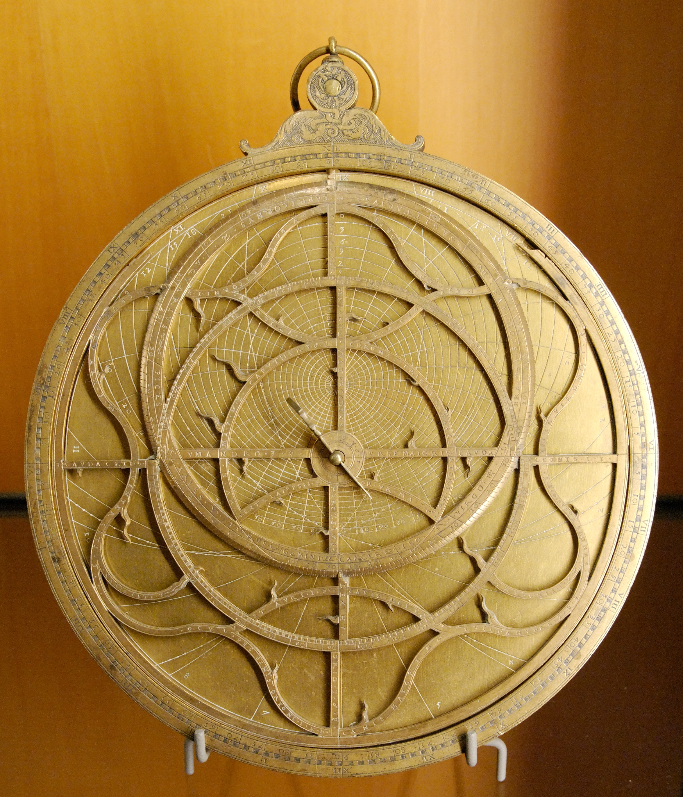 Planispheric astrolabe, gilt brass, 1553.